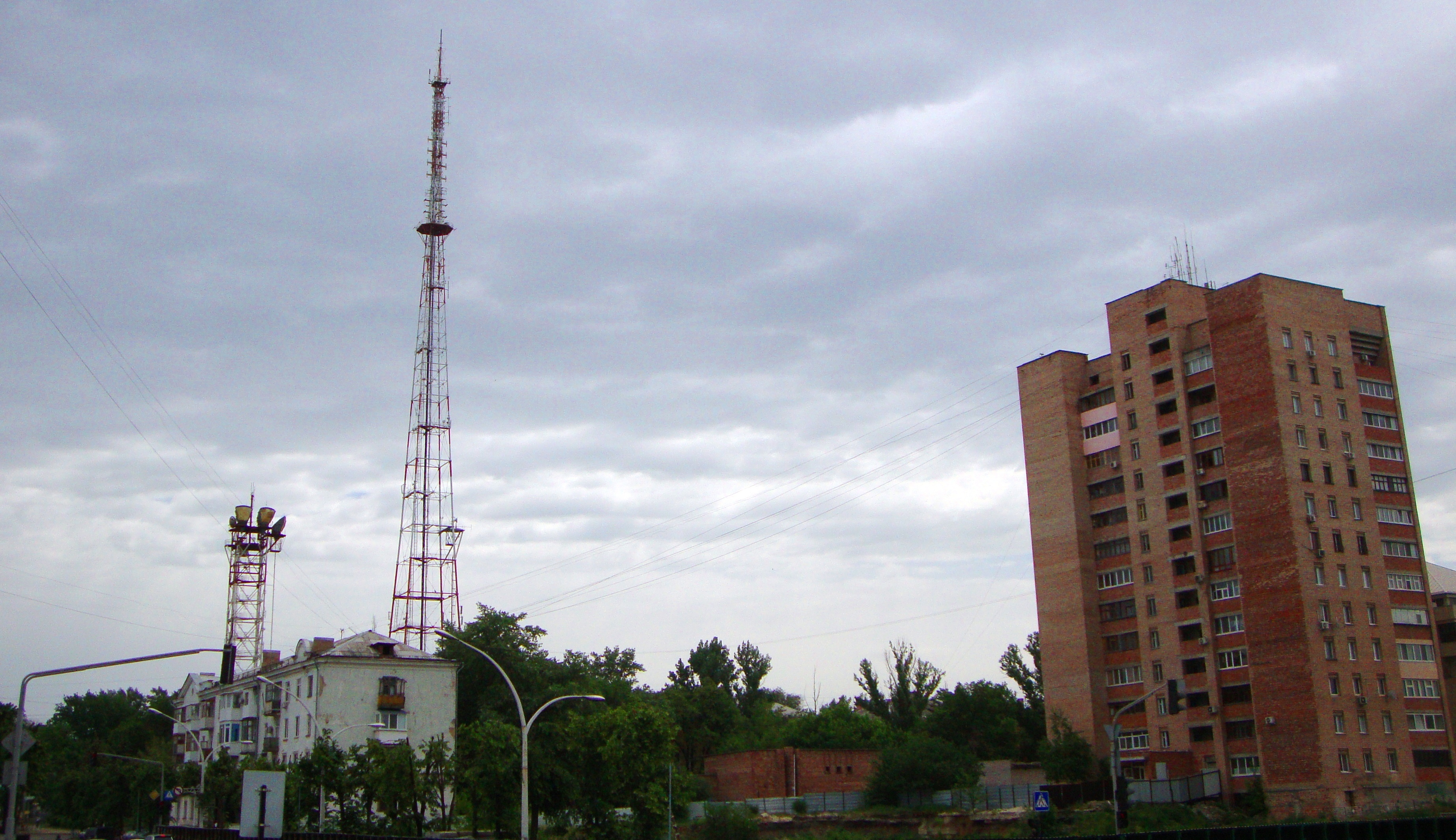 Luhansk TV-tower